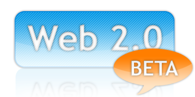 The common style of today's Web 2.0 interface. The glassy buttons, gradient backgrounds, and so called "wet floor" effects. If anyone wants the PSD-file of this image, just leave a message at my Dutch Wikipedia userpage.